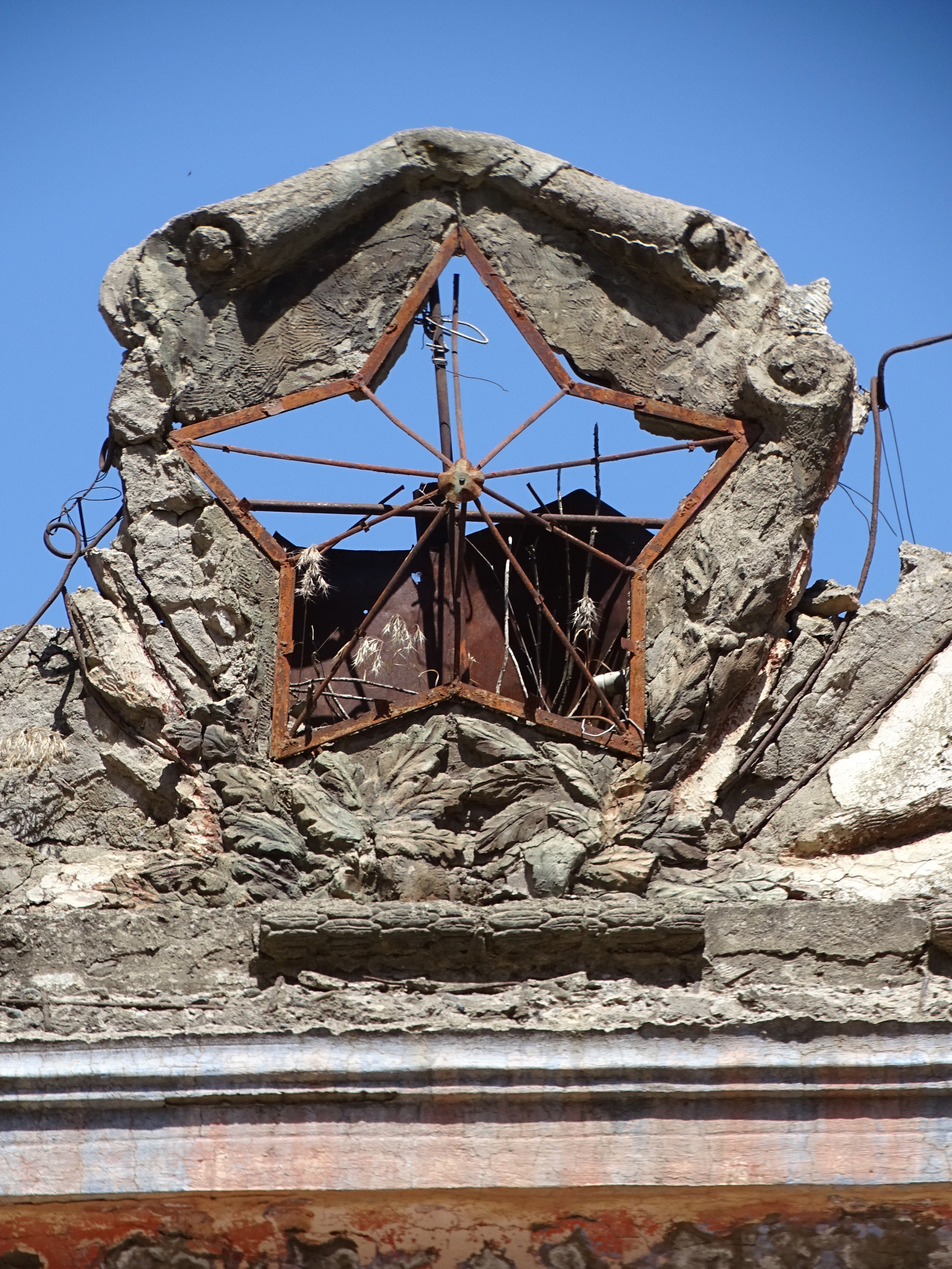 Ruins of Soviet Star and Crest - Shushi - Nagorno-Karabakh